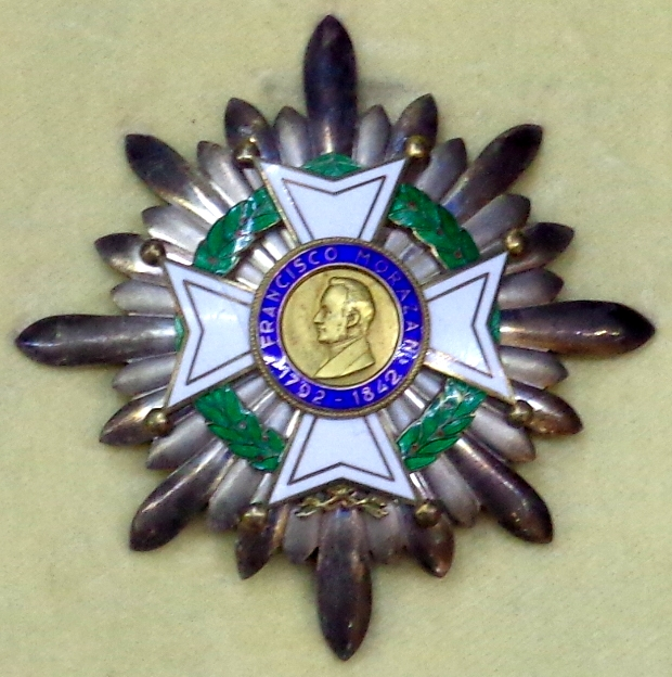 Order of Francisco Morazan, star of Grand Cross, 1960-1980. Honduras. The exhibition of the Tallinn Museum of Orders of Knighthood, Estonia.